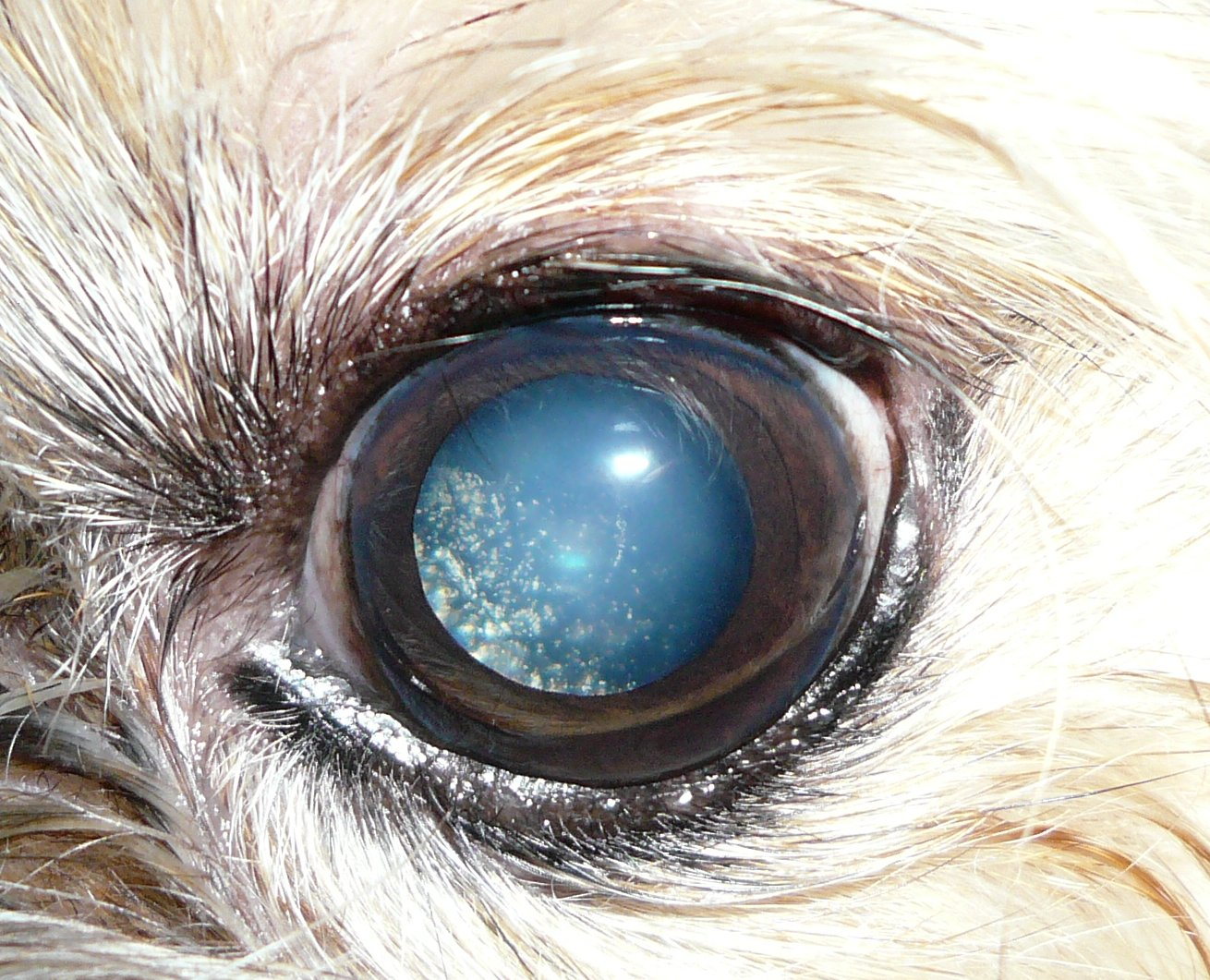 Asteroid hyalosis in a Yorkshire Terrier. This dog also has nuclear sclerosis, causing the hazy appearance of the lens.